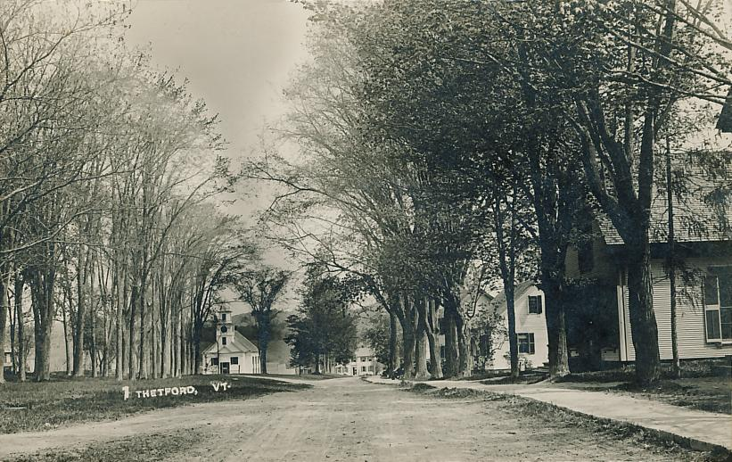 View of Thetford, VT; from a postmarked 1912 postcard